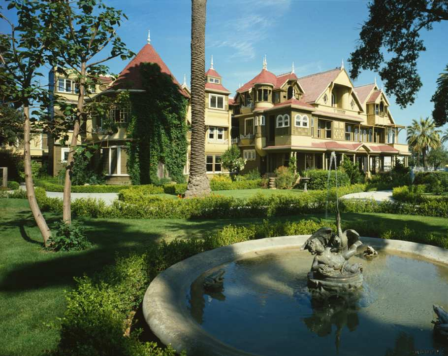 Winchester Mystery House Category:Images of California